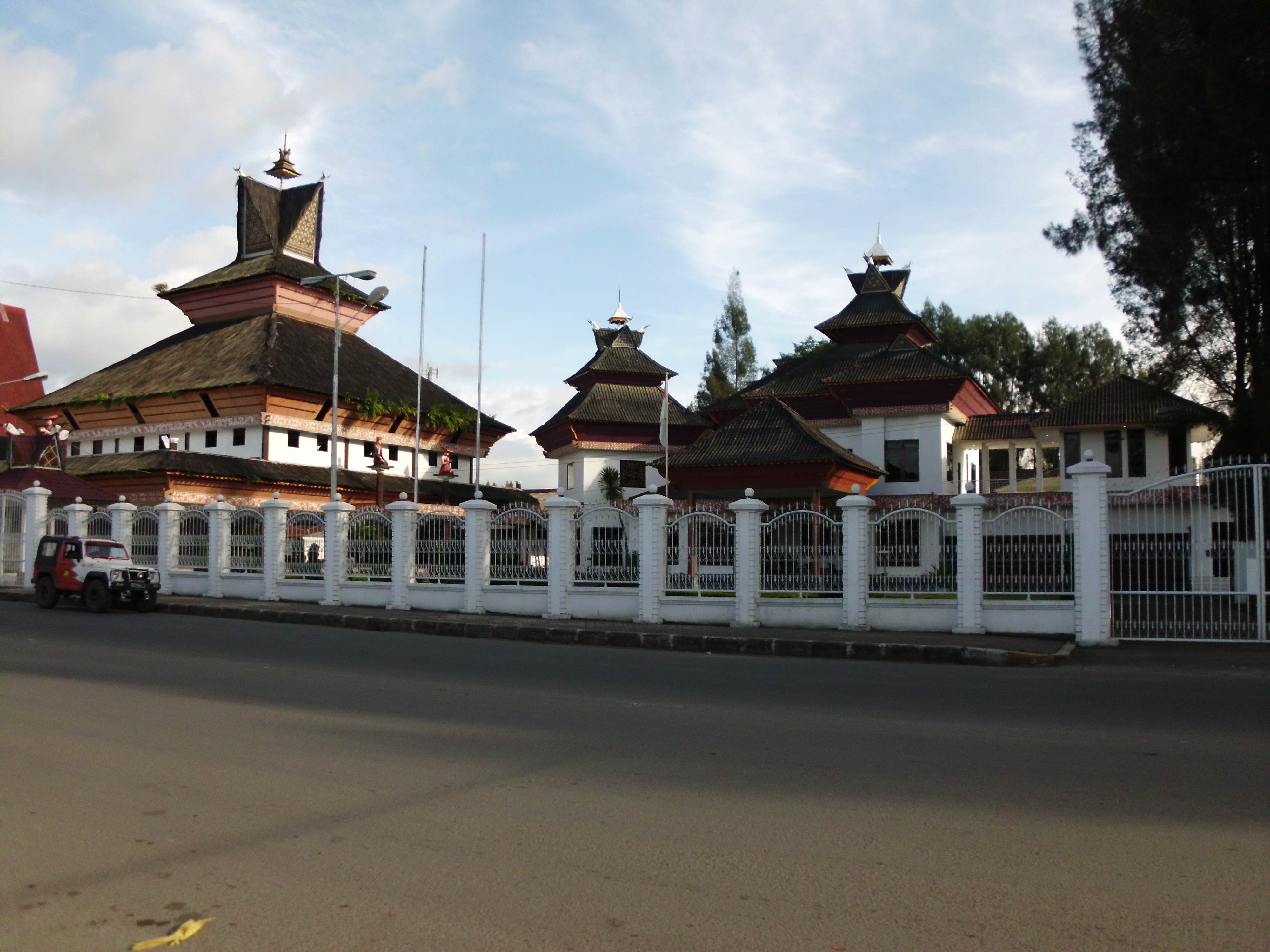 Verandah of karo regency also known by the public as the official residence of the regent